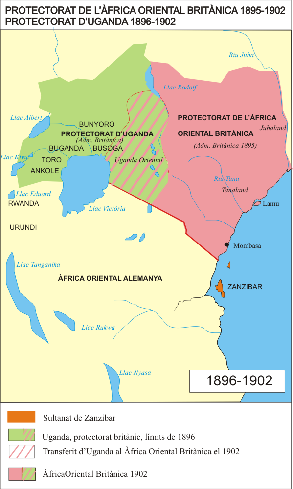 Map of British East Africa 1895-1902